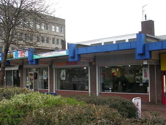 Bright House - Bramley Shopping Centre